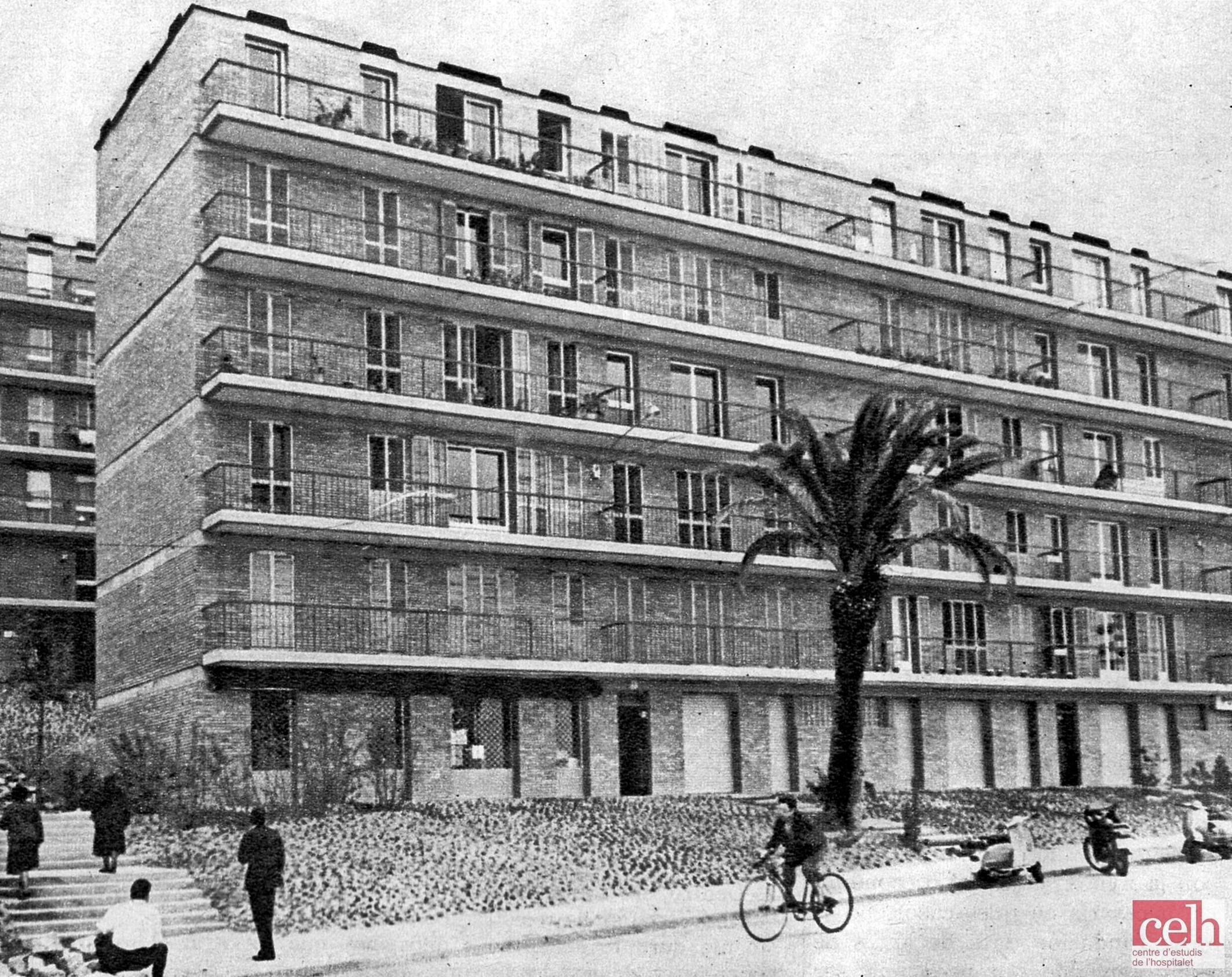 Can Serra 1968